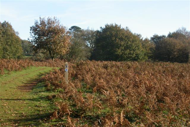 Puttenham Common. One of the bracken-covered open parts of the common.